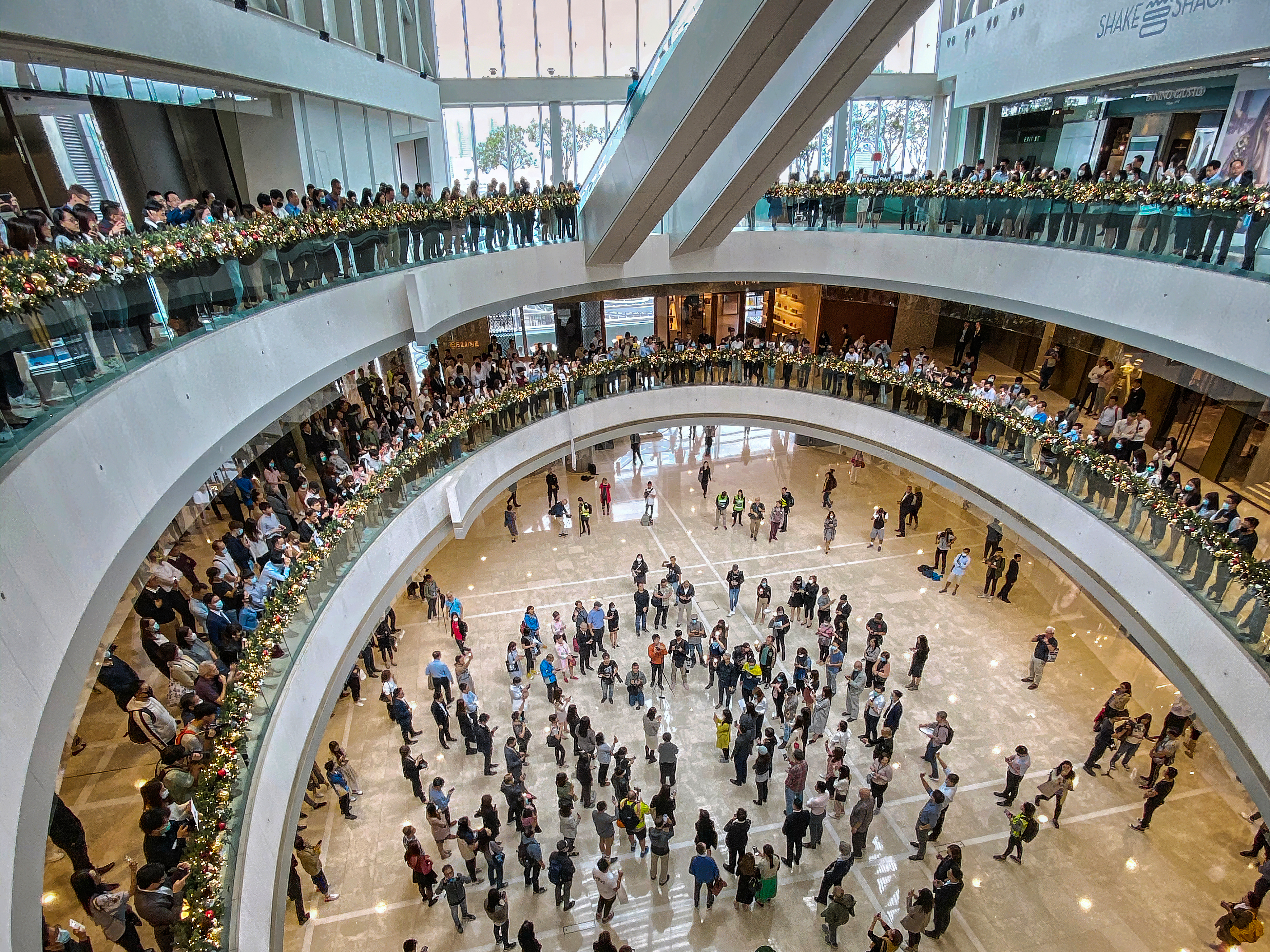 IFC Lunch with you